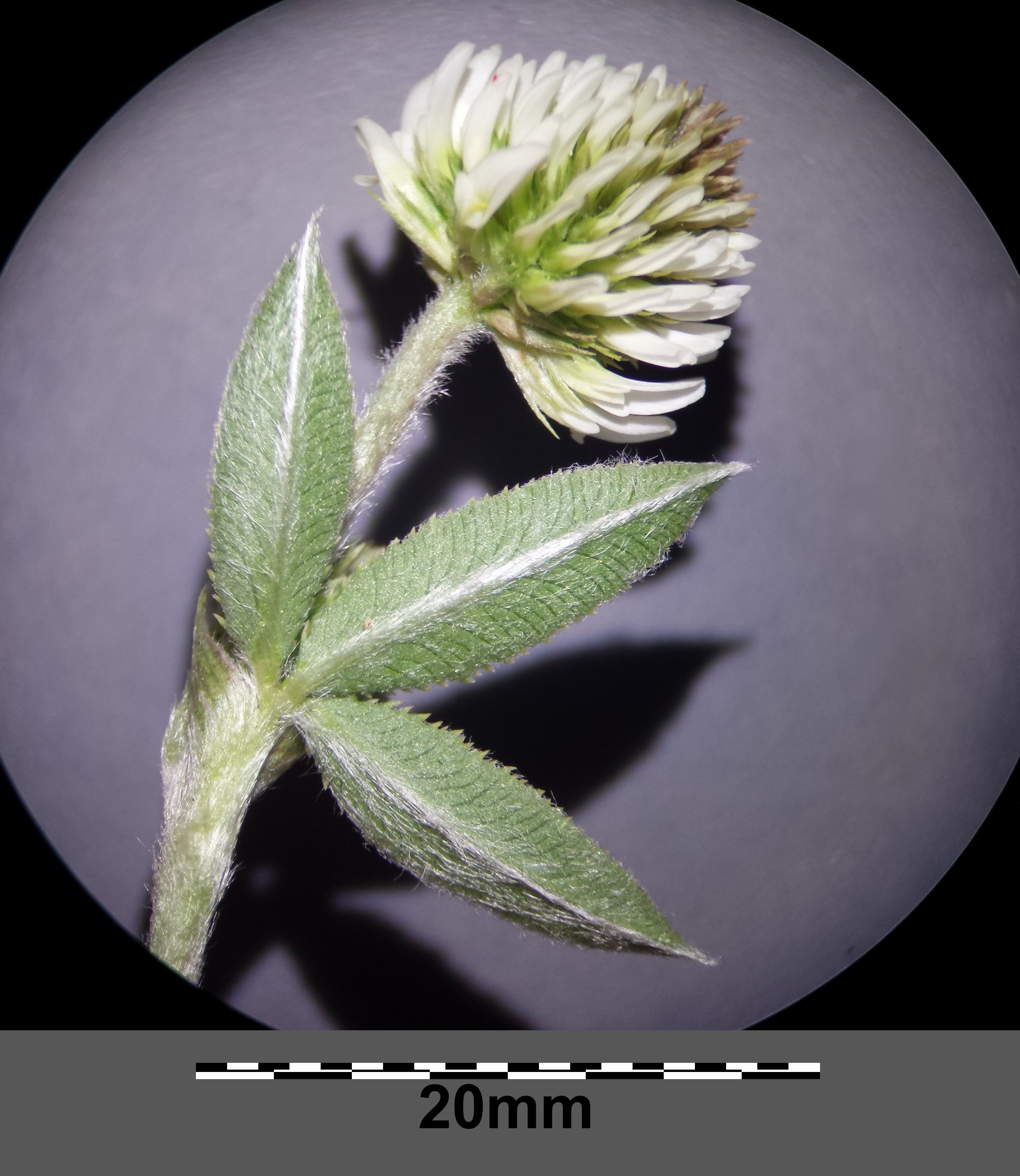 Stem with leaf and inflorescence Taxonym: Trifolium montanum (subsp. montanum) ss Fischer et al. EfÖLS 2008 ISBN 978-3-85474-187-9 Location: Kogelberg, Straning-Grafenberg, district Horn, Lower Austria - ca. 300 m a.s.l. Habitat: dry grassland